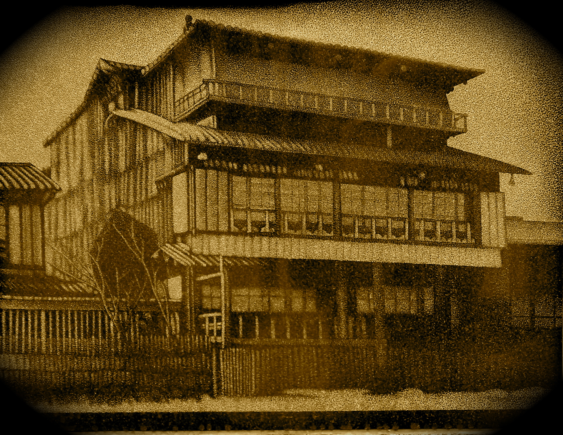 Seikiro (Ritsumeikan University's Birth Place, Kyoto, Japan)